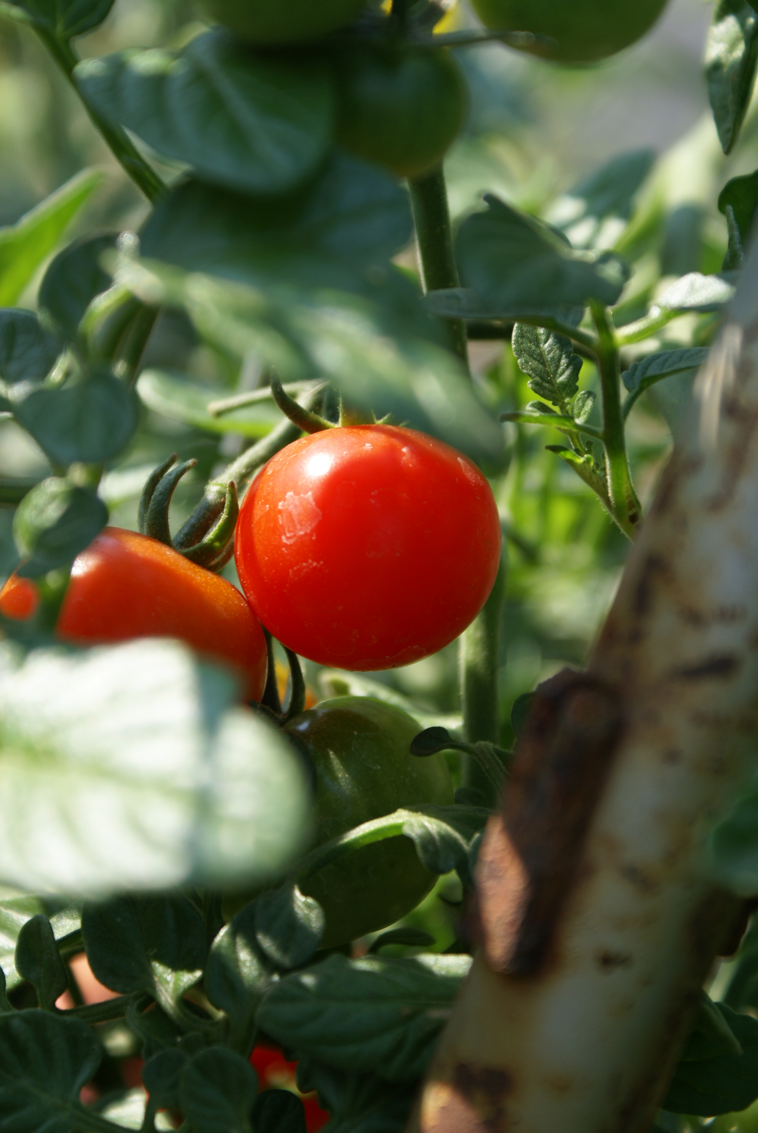 Cherry tomato on vine.